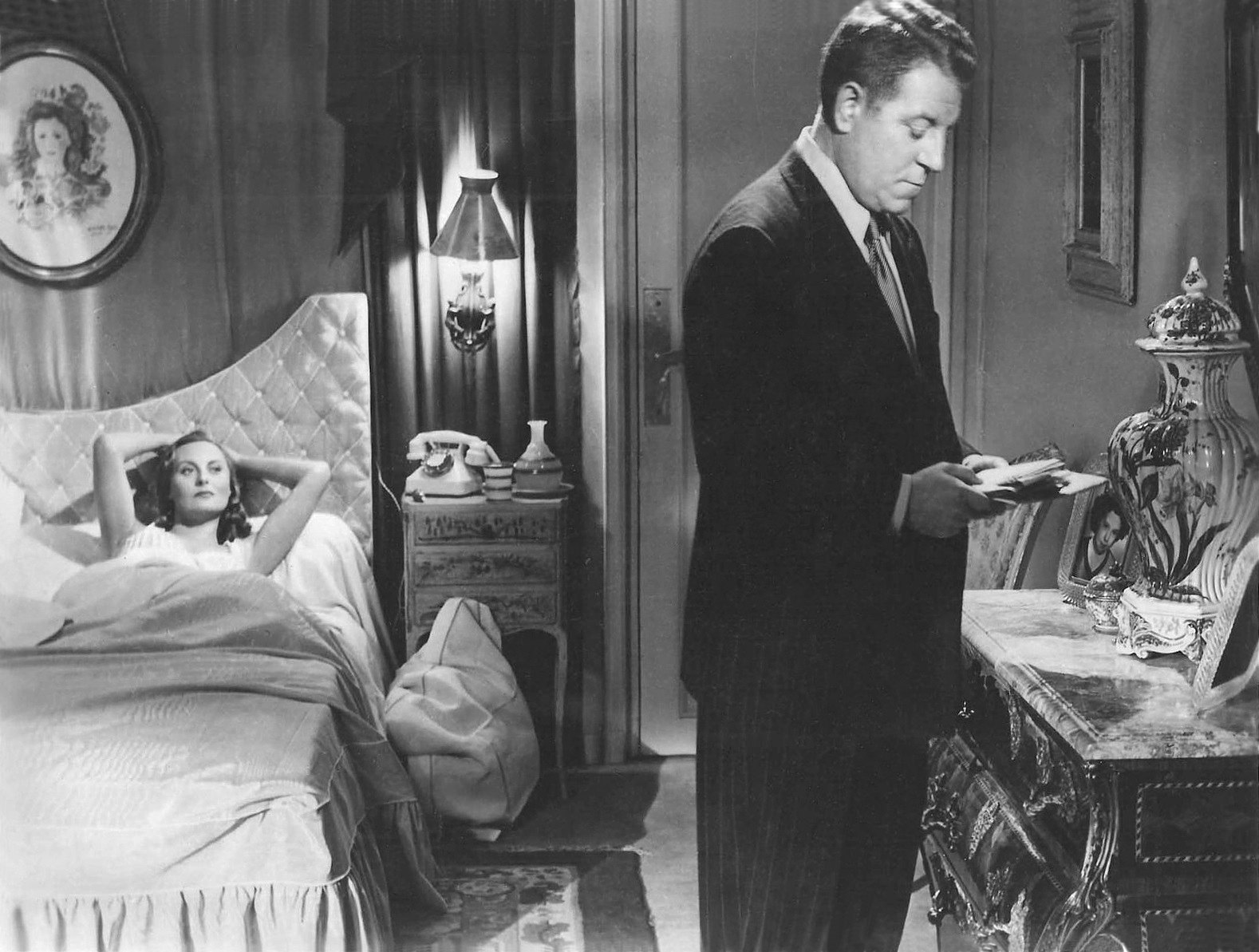 Jean Gabin and Michèle Morgan in «La Minute de vérité» 1952